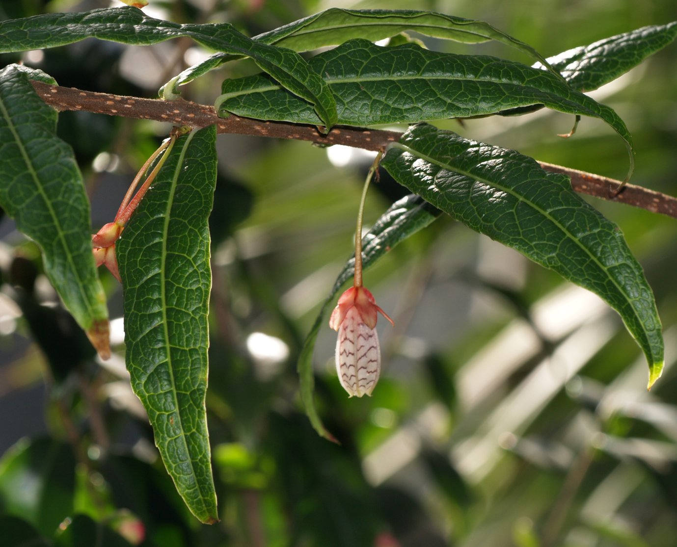 Agapetes incurvata from the Botanical Garden (Flora) of Cologne, Germany.